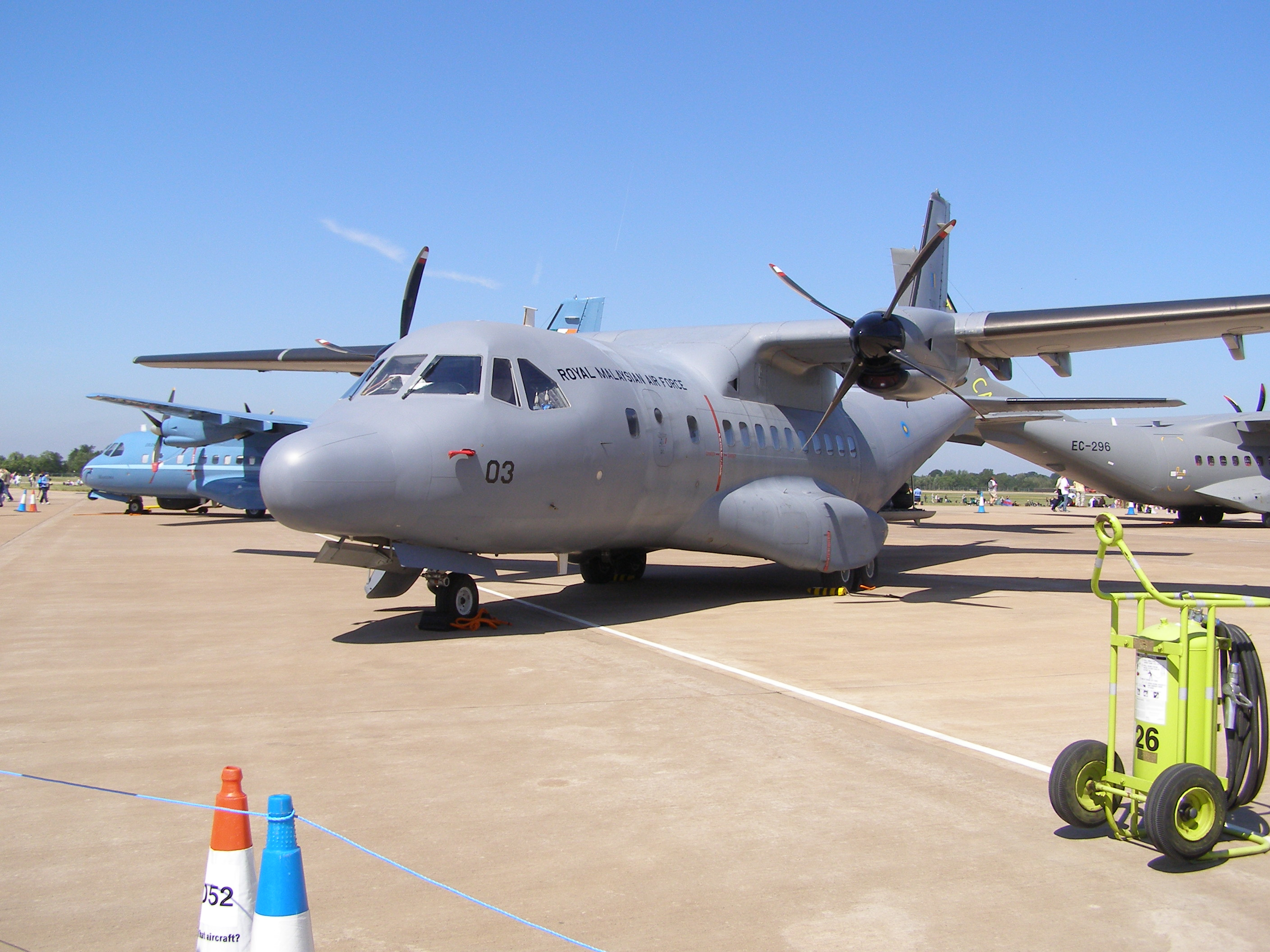 CASA 235 serial number M44-03 of the Royal Malaysian Air Force at 2006 Royal International Air Tattoo, Fairford, England.